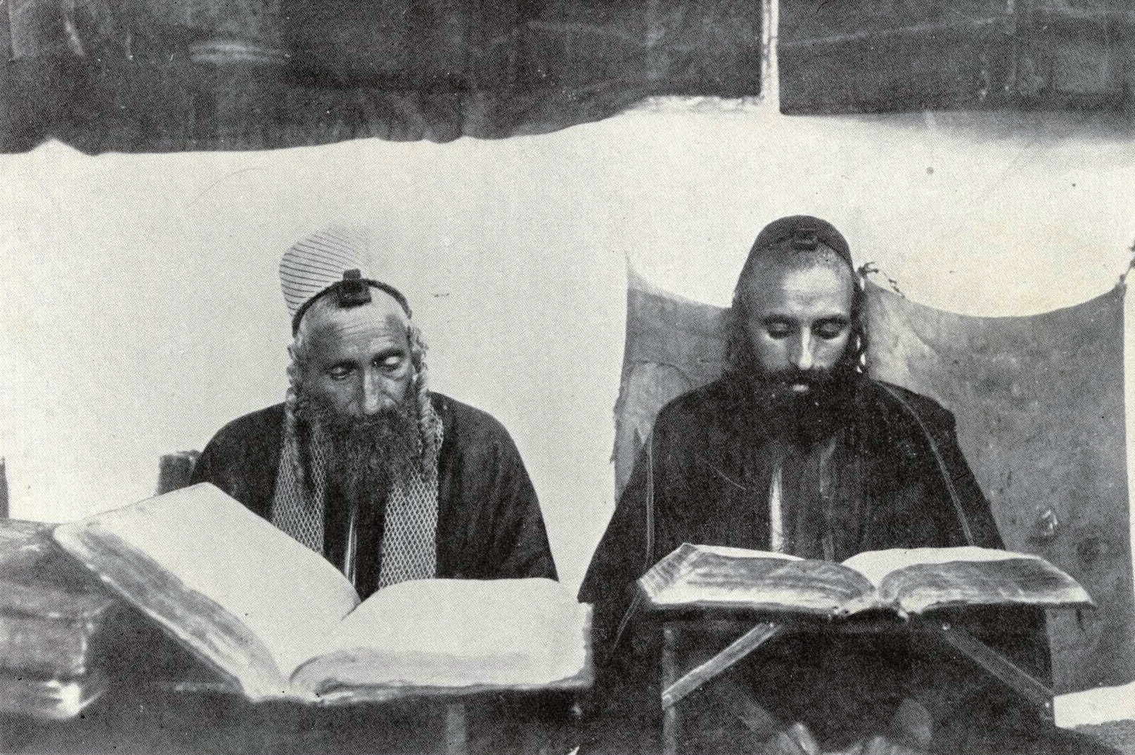 This black & white photo, taken more than 100 years ago in Sana'a (Yemen) by Hermann Burchadt, shows two Jewish Sages studying the Divine Law of Moses. I wish to post it on WP Mawza Exile. Other information None